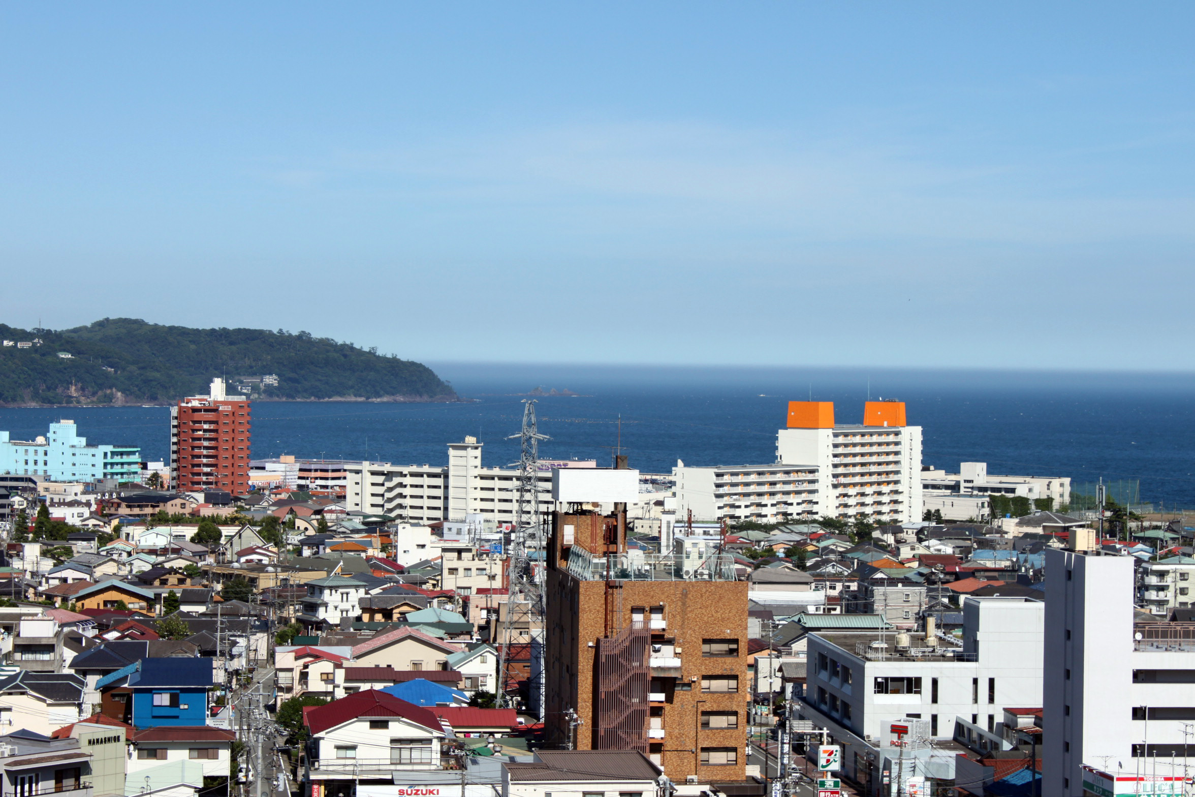 View of Yugawara town center. Picture by Bertel Schmitt